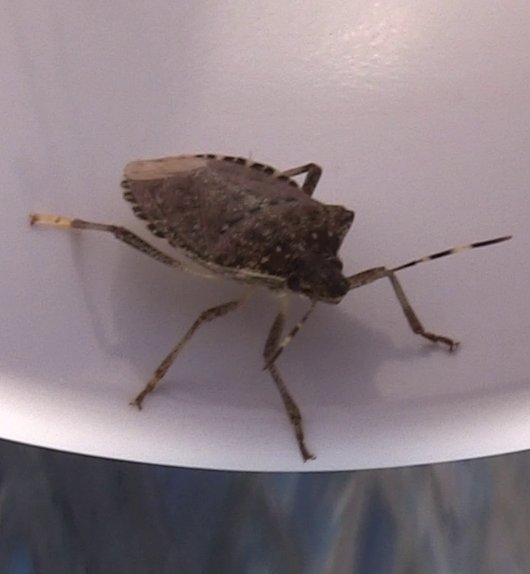 Stink Bug photograph at an angle